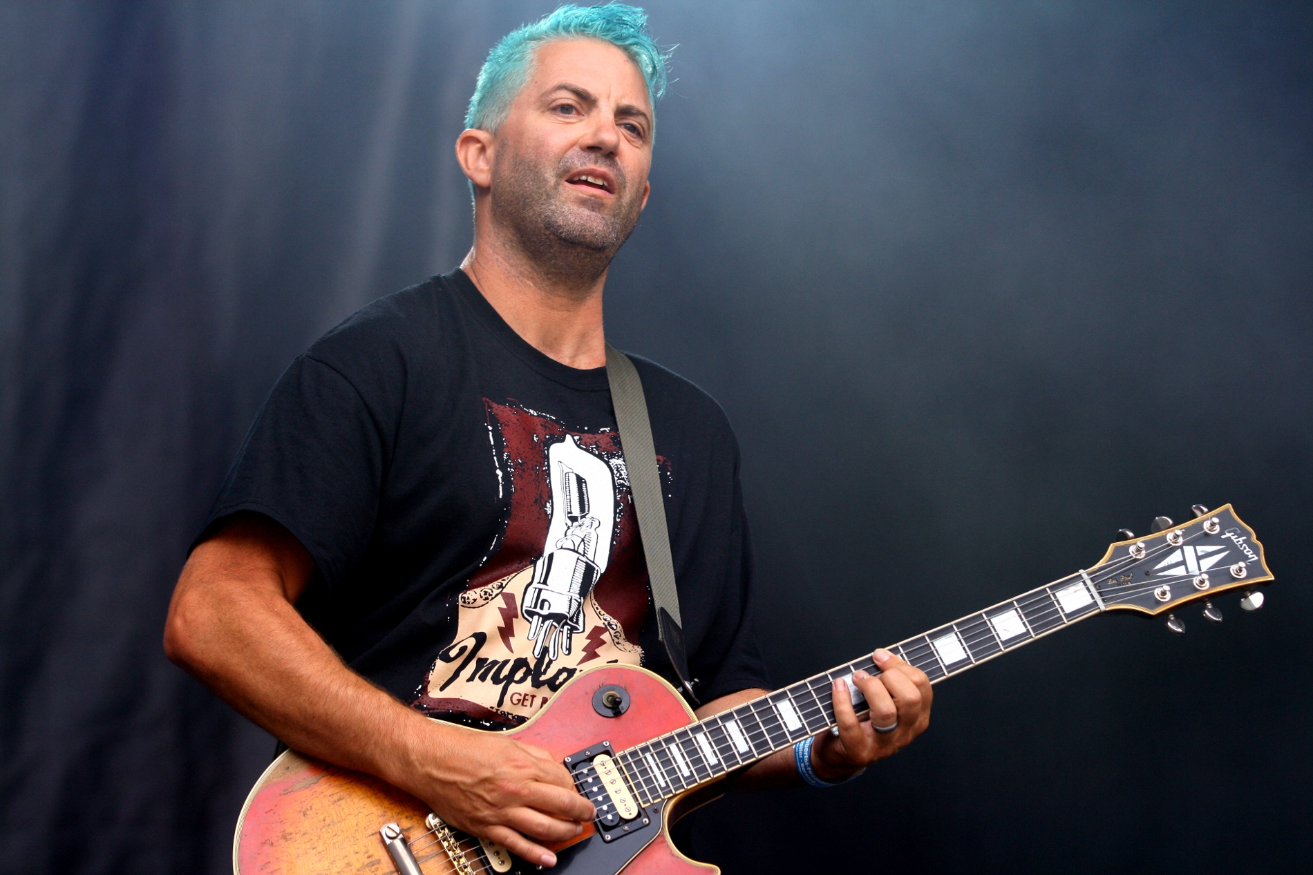 Chris Rest, guitarist of Lagwagon, Taubertal Festival 2014. Festivalsommer This photo was created with the support of donations to Wikimedia Deutschland in the context of the CPB project "Festival Summer".